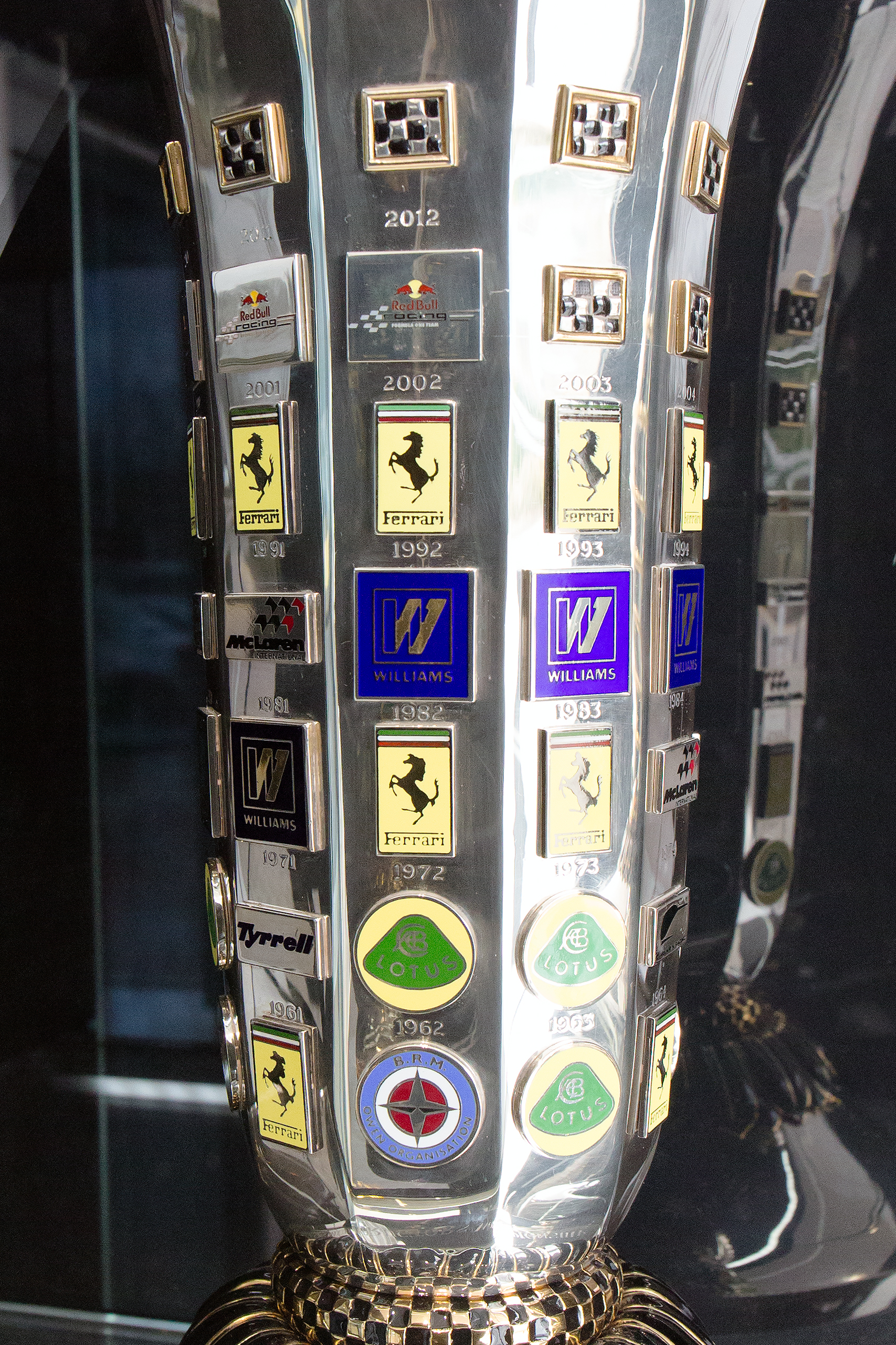 Formula One Constructors' Championship trophy at the Red Bull Racing factory, Milton Keynes.